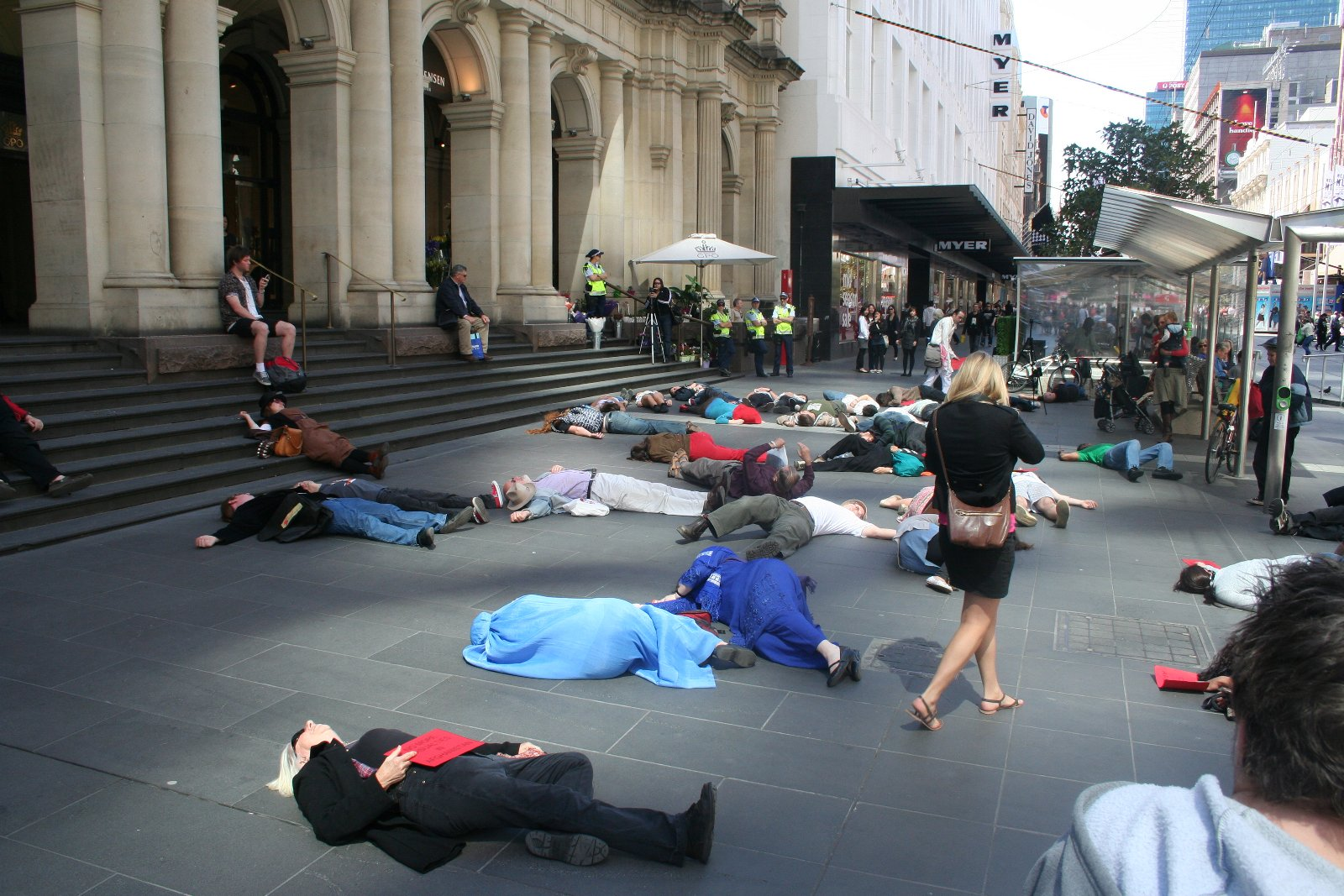 Flashmob protest outside the old GPO, Bourke Street Mall, Melbourne, on the ninth anniversary of the Afghanistan War.